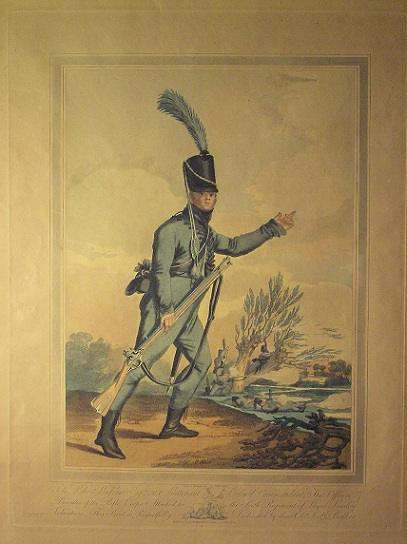 Print of Sir Robert Wigram in military uniform, holding a rifle